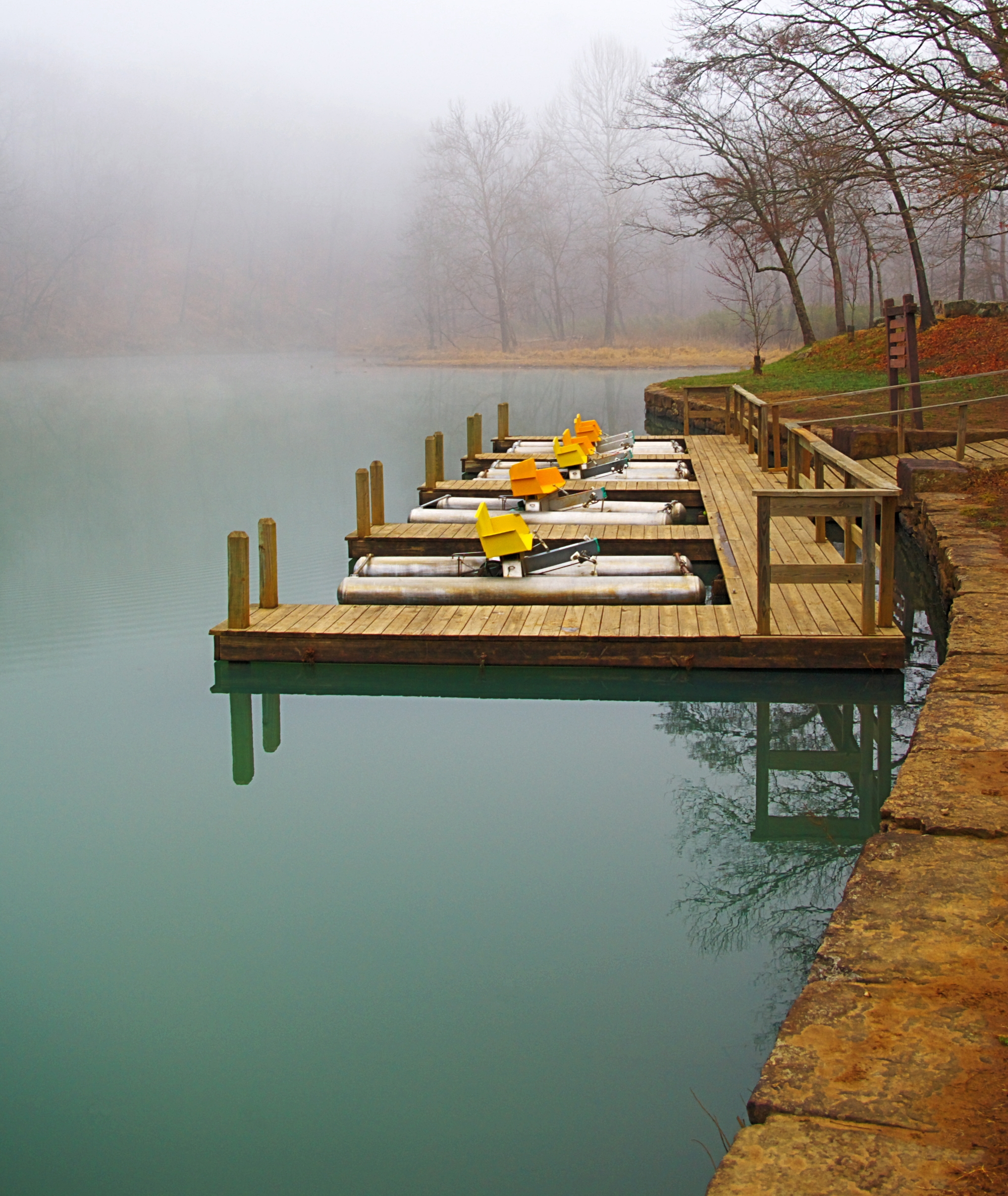 The pedalboat dock at Devil's Den State Park in northwest Arkansas, with early morning fog and perfectly still water. The water really is that milky blue-green color. It's caused by suspended sediments and minerals. [For the Assignment52 pool - maybe this is a bit of a stretch since the water is more blue-green than a true Irish shamrock green, but it's what I've got right now so I'll go with it.]